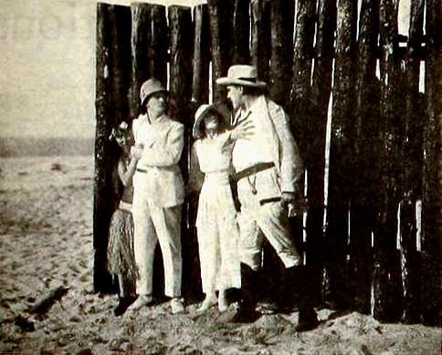 Still from episode 1 of the American film serial Trailed by Three (1920) with Stuart Holmes and Frankie Mann, on page 2920 of the March 27, 1920 Motion Picture News.